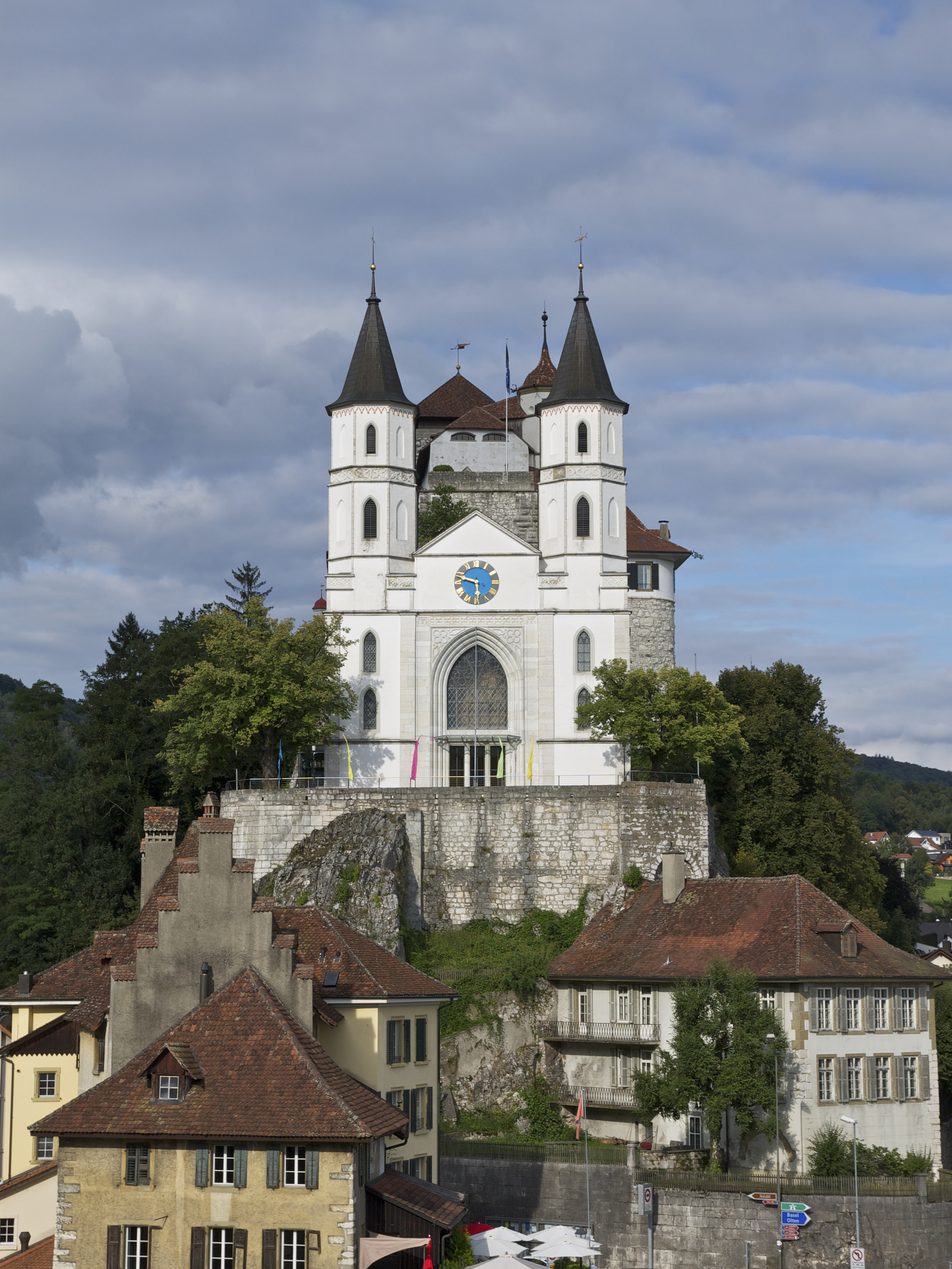 The Reformed Church in Aarburg, Switzerland.